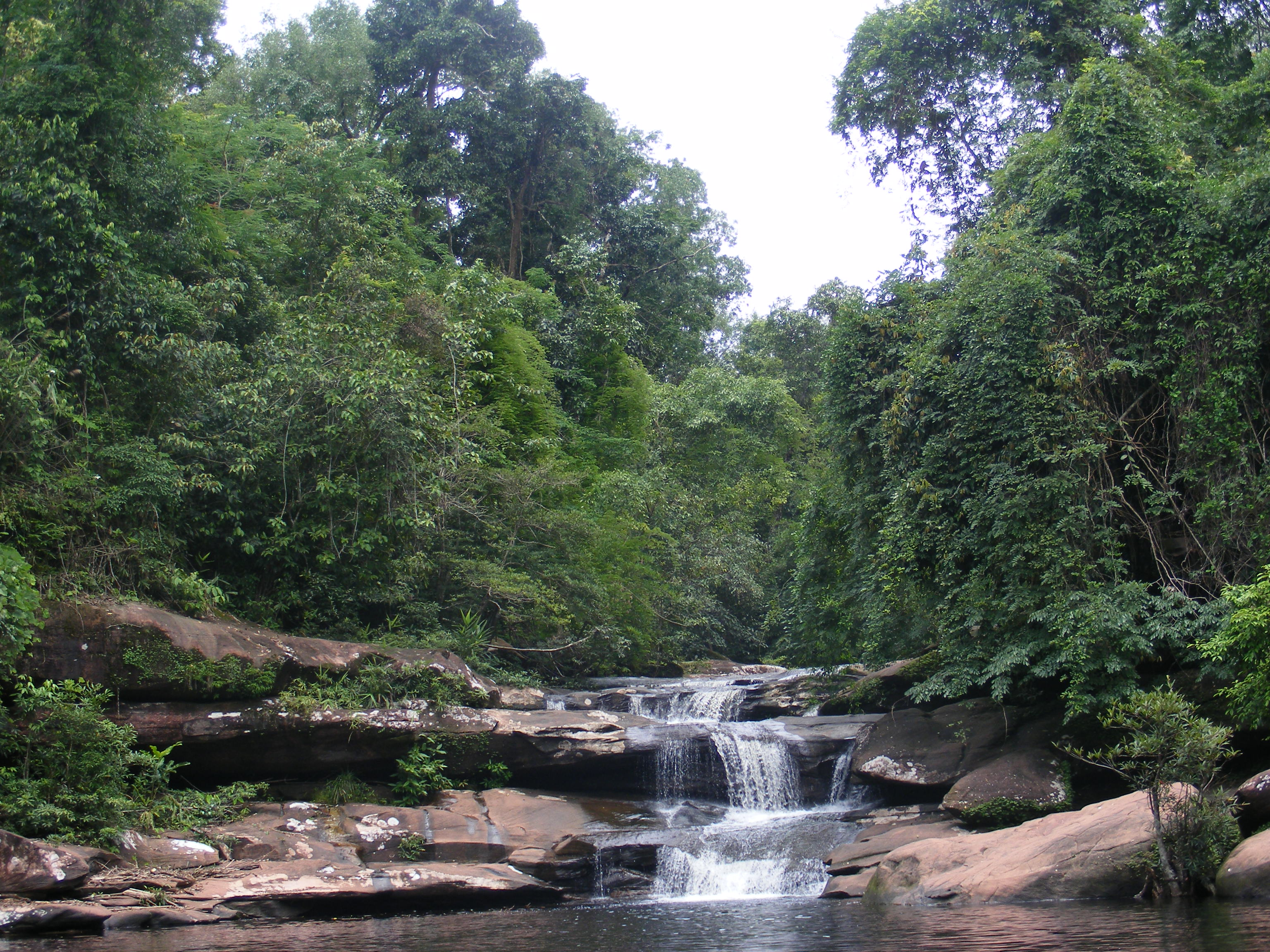 Waterfall and riparian forest in Amphoe Si Songkhram, North Eastern Thailand.